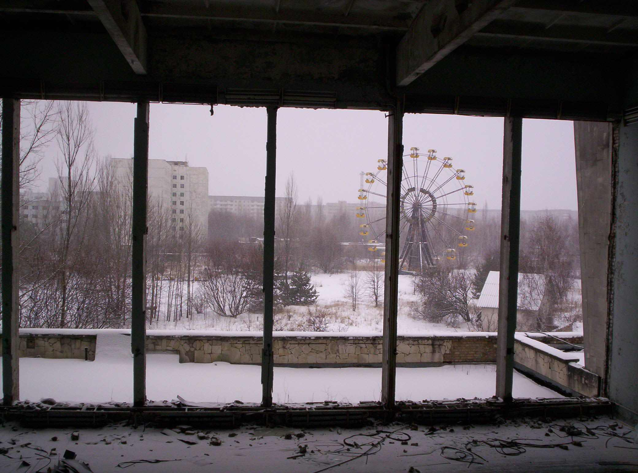 Author: Keith Adams, February 2006